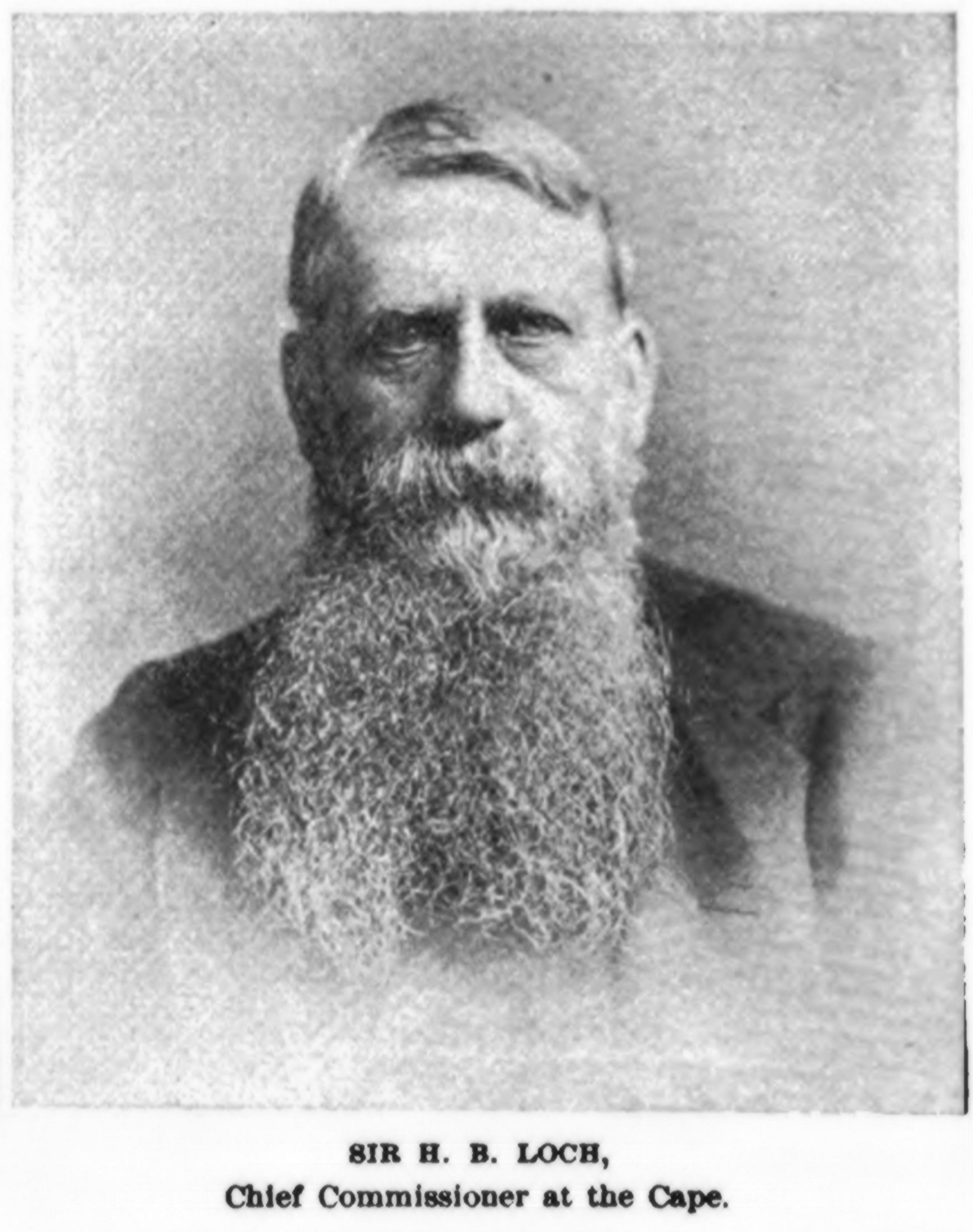 Henry Brougham Loch, 1st Baron Loch GCB, GCMG (23 May 1827 – 20 June 1900) was a Scottish soldier and colonial administrator.